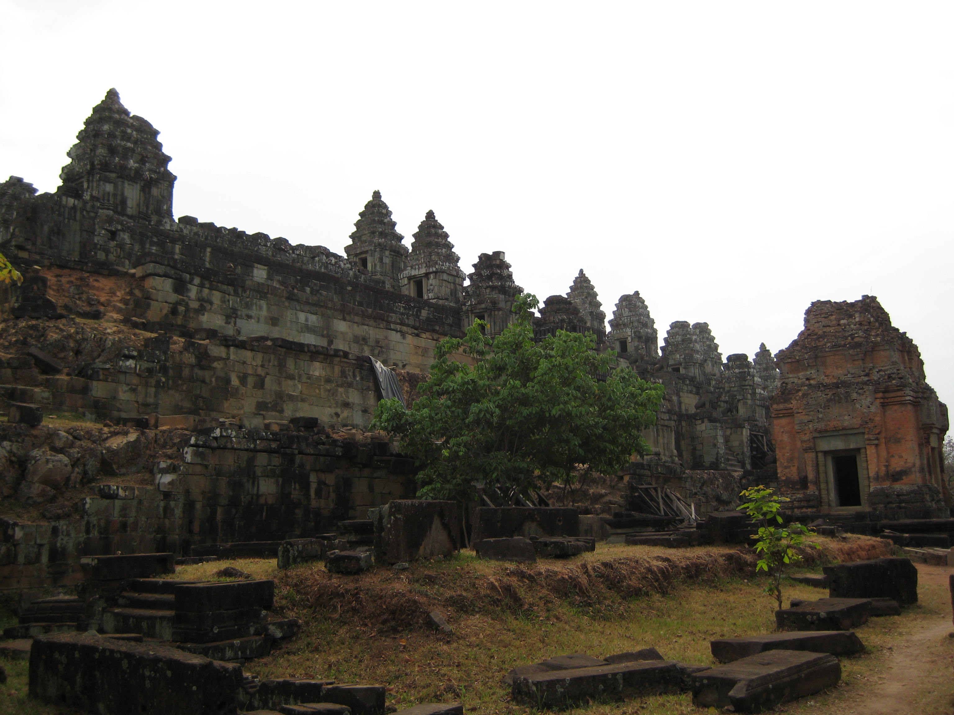 Phnom Bakheng January 2008 Norsk (bokmål): Phnom Bakheng januar 2008